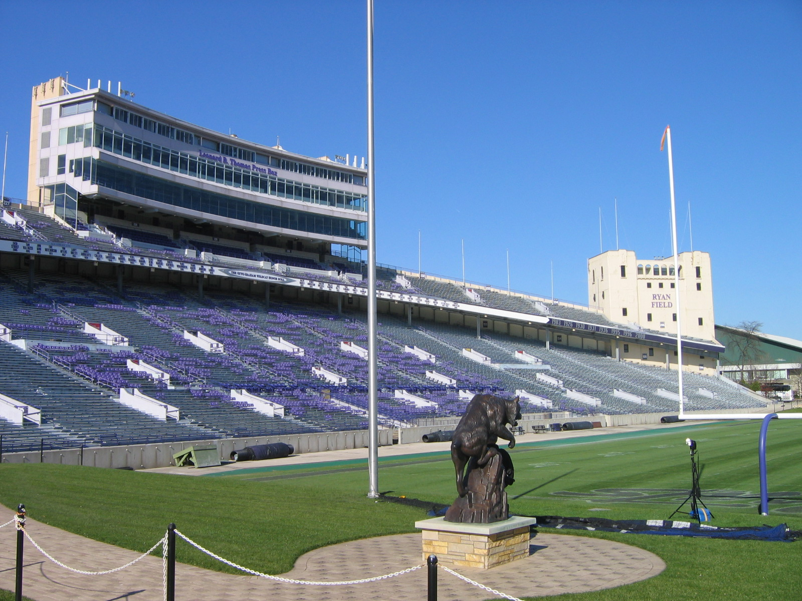 Football Facilities Northwestern U Football Stadium